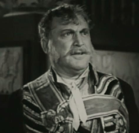 Michael Visaroff in The Son of Monte Cristo - cropped screenshot